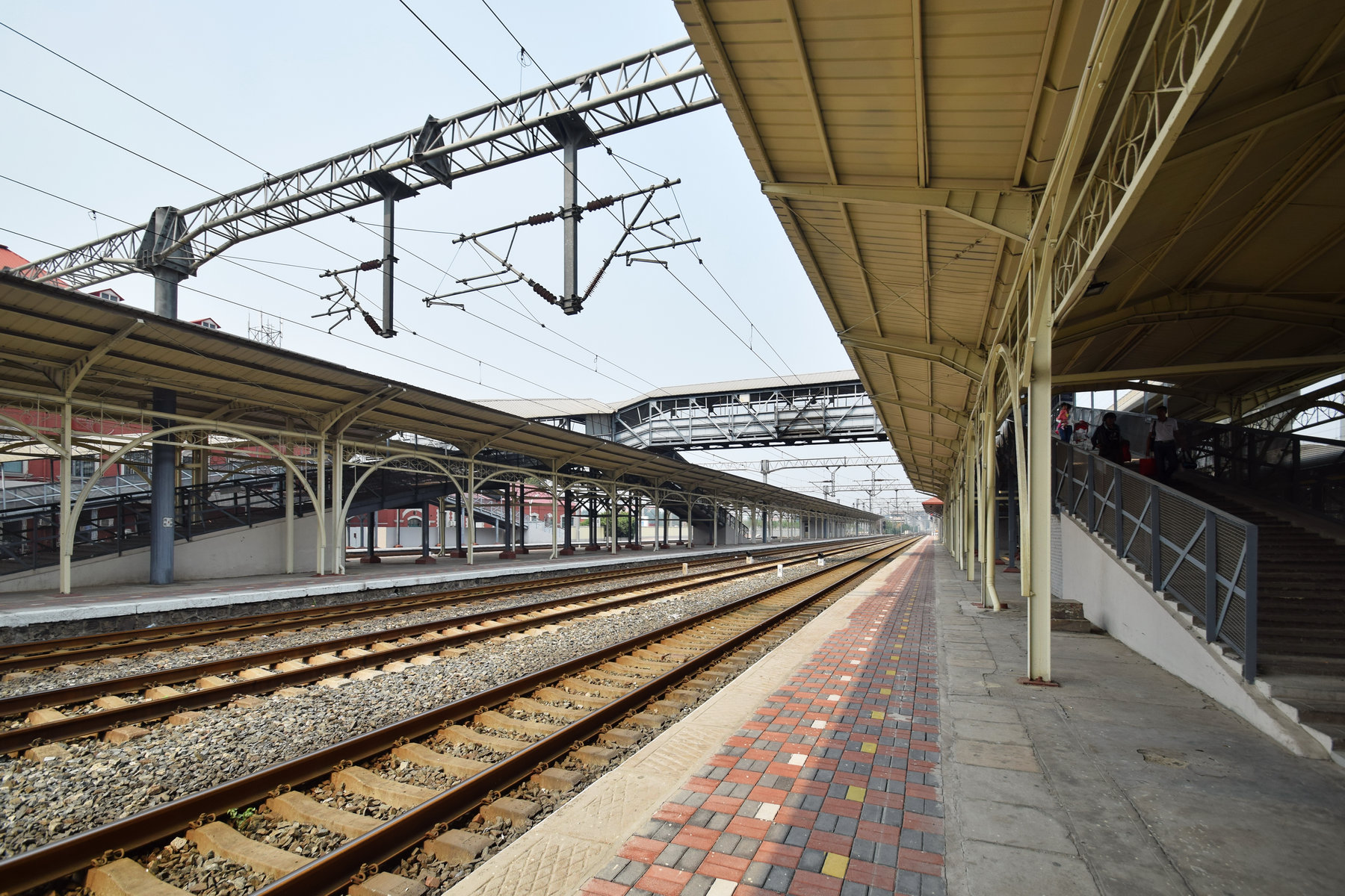 Platforms of Tianjin Bei (North) Railway Station, towards Nancang / Tianjin West Railway Station